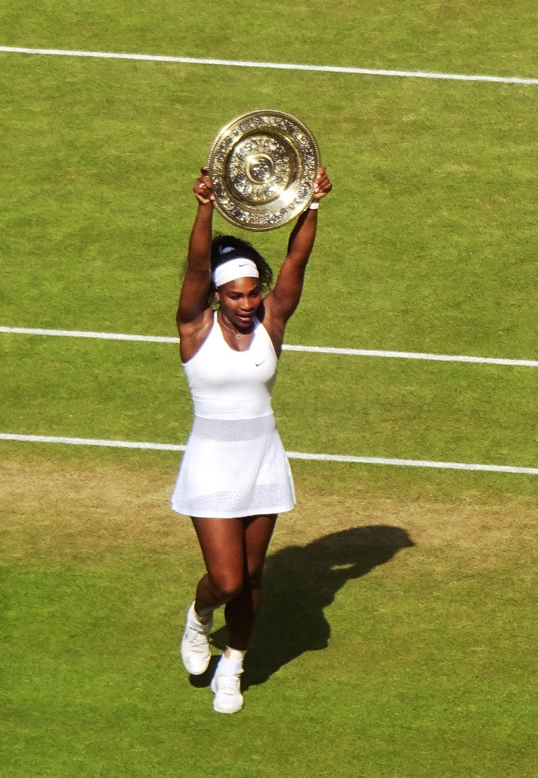 Serena Williams beat Garbiñe Muguruza 6–4, 6–4 to win her sixth Wimbledon singles trophy.